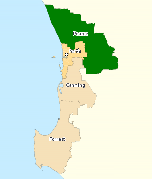 Incorporates or developed using Administrative Boundaries ©PSMA Australia Limited licensed by the Commonwealth of Australia under Creative Commons Attribution 4.0 International licence (CC BY 4.0). Derived from State and Territory Boundaries from the Australian Bureau of Statistics under Creative Commons Attribution 2.5 Australia license (CC BY 2.5 AU)